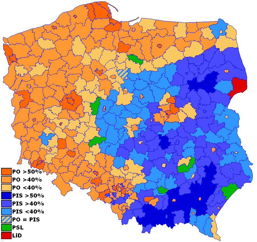 Polish parliamentary election, 2007 by counties